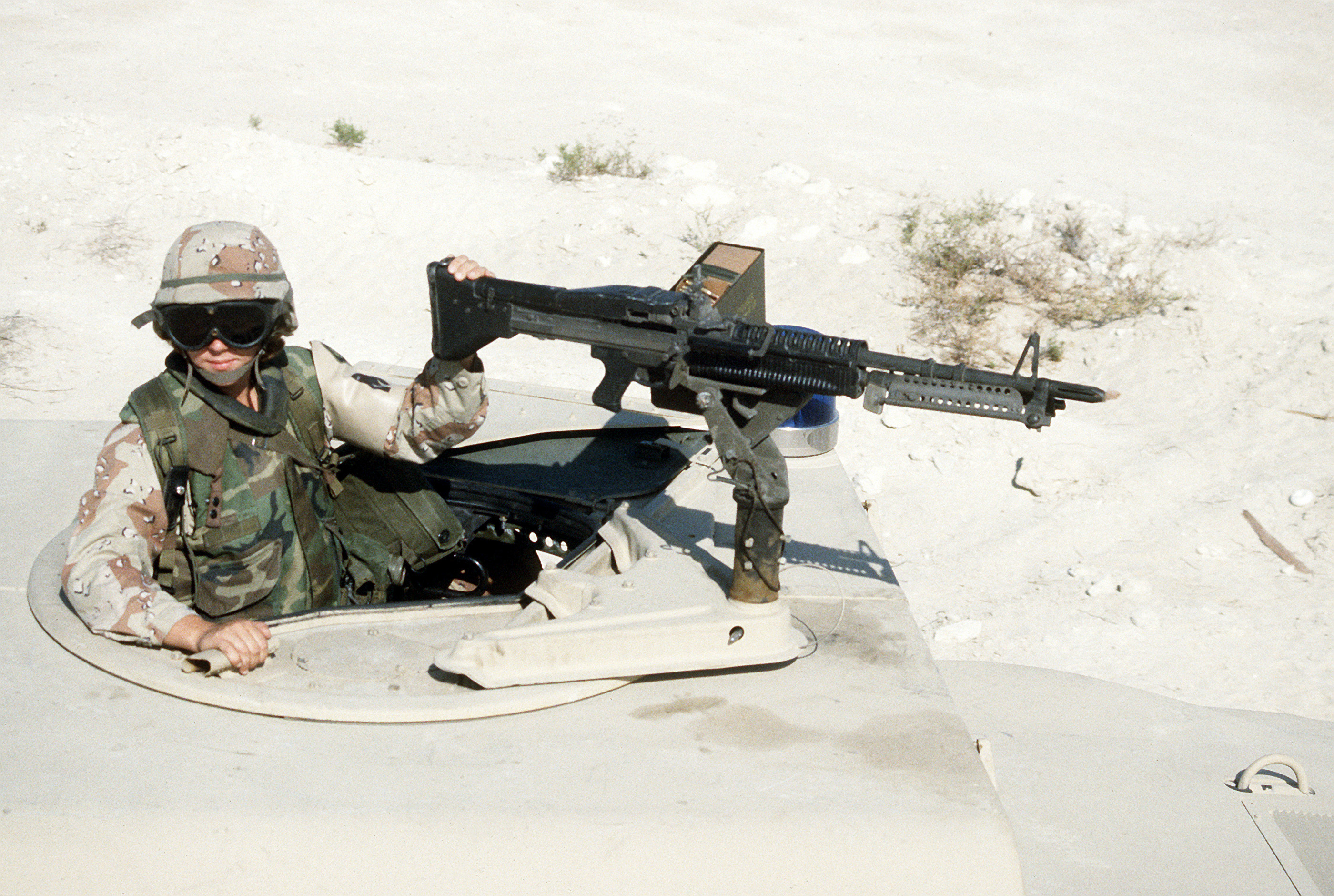 Spec. Tracy Burgett, 810th Military Police Company, mans a 7.62mm M60 machine gun atop an M998 High-Mobility Multipurpose Wheeled Vehicle (HMMWV) during Operation Desert Shield.